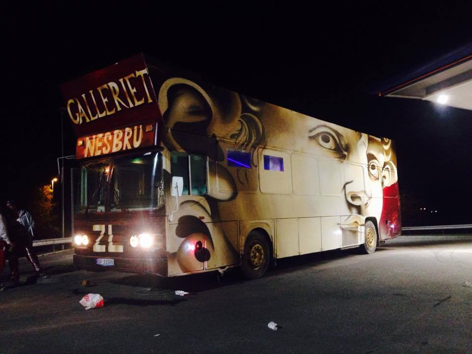 A picture of the bus "Galleriet 2015", "The Gallery 2015".